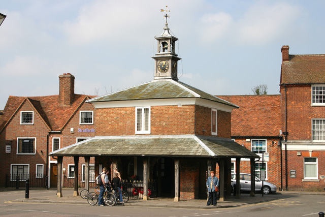 The 17th century Market House at the centre of Princes Risborough in Buckinghamshire, United Kingdom.